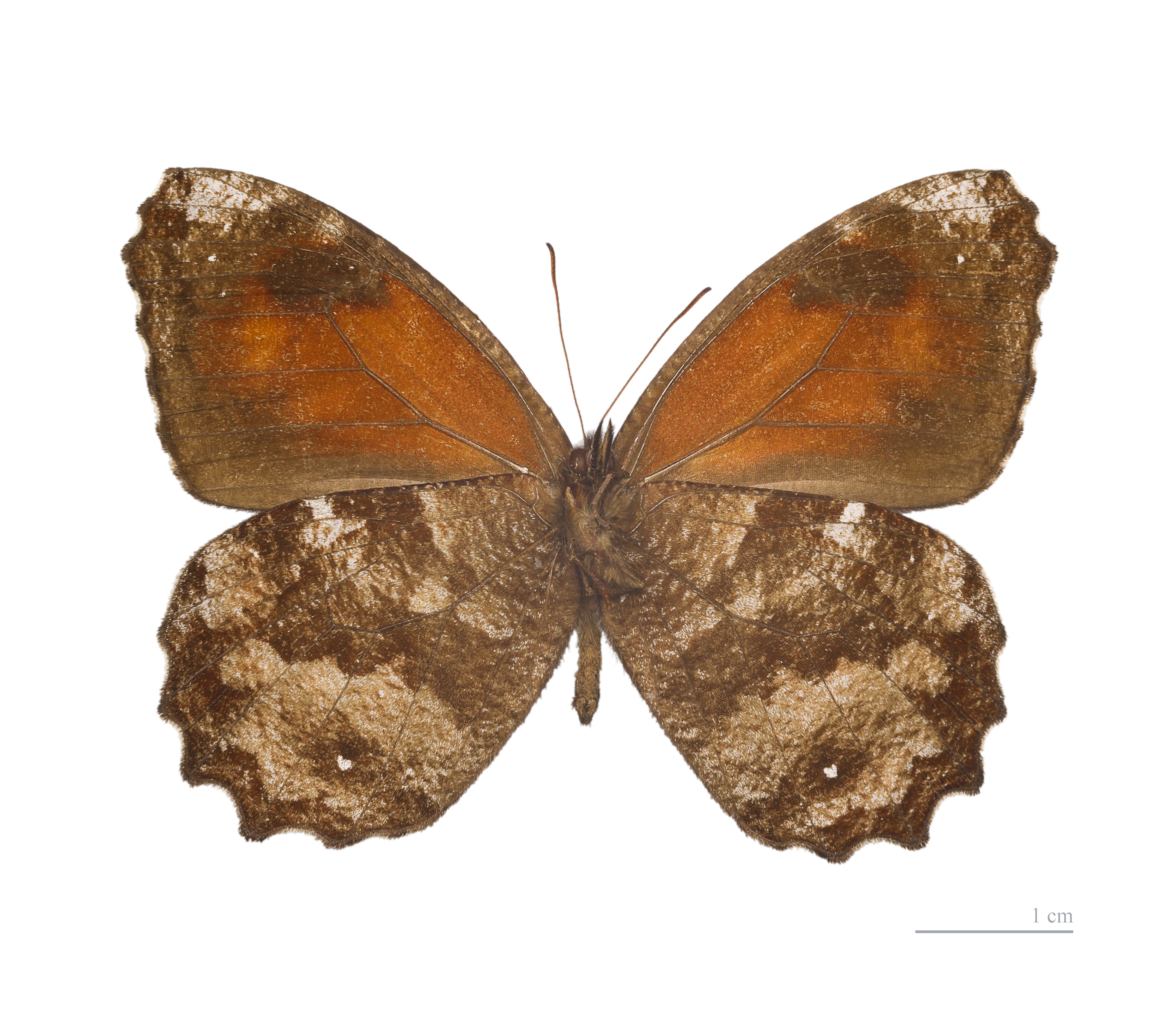 ♂ - △ Ventral side Locality:Chapare Province, Bolivia (TL).